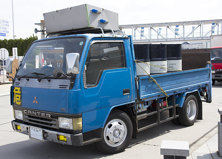 5th generation Fuso Canter 20